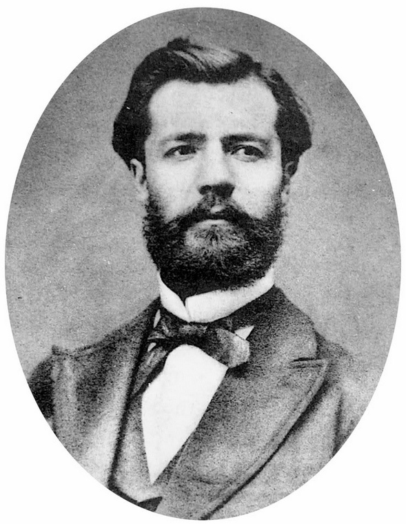 Henri Fayol, ca. 1900